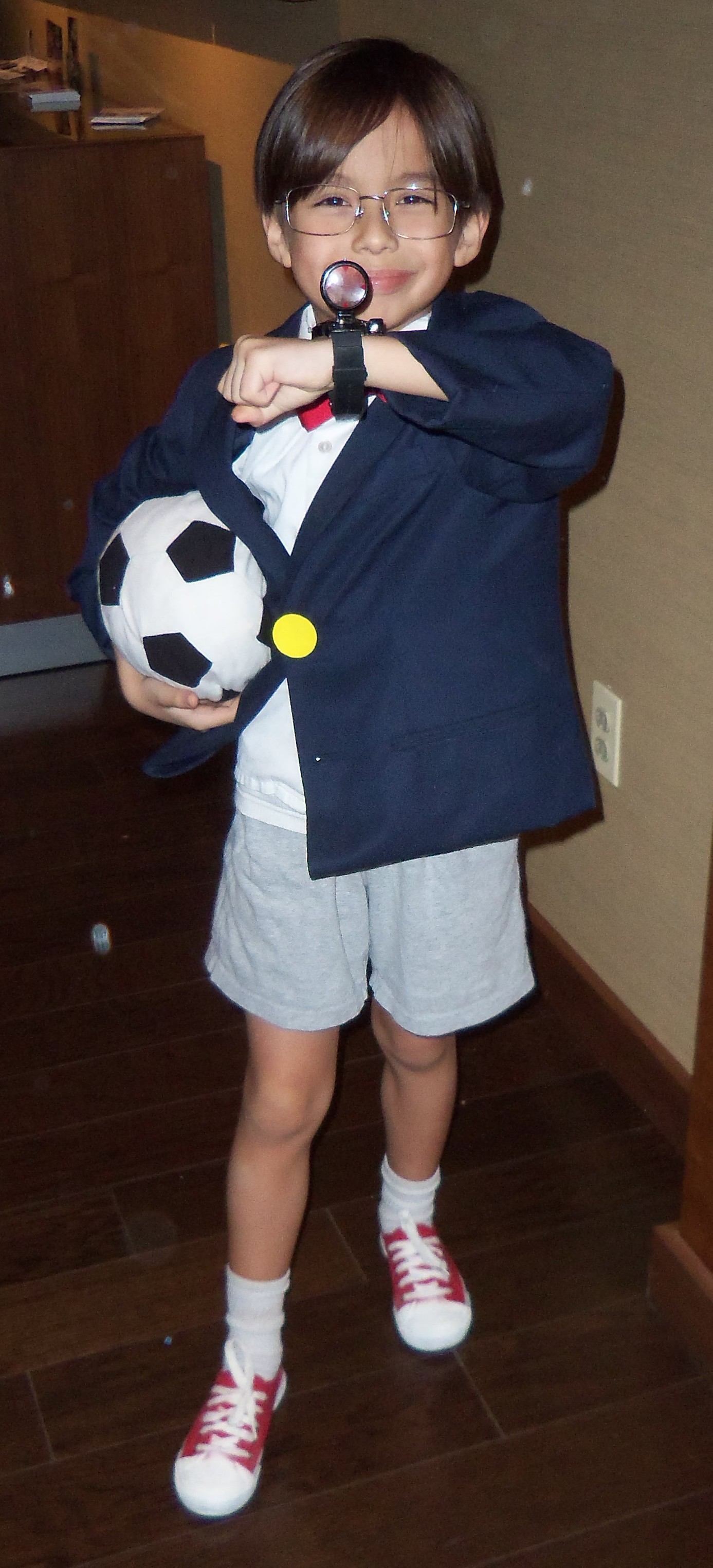 Detective Conan Conan Edogawa cosplayer at Anime USA 2011.